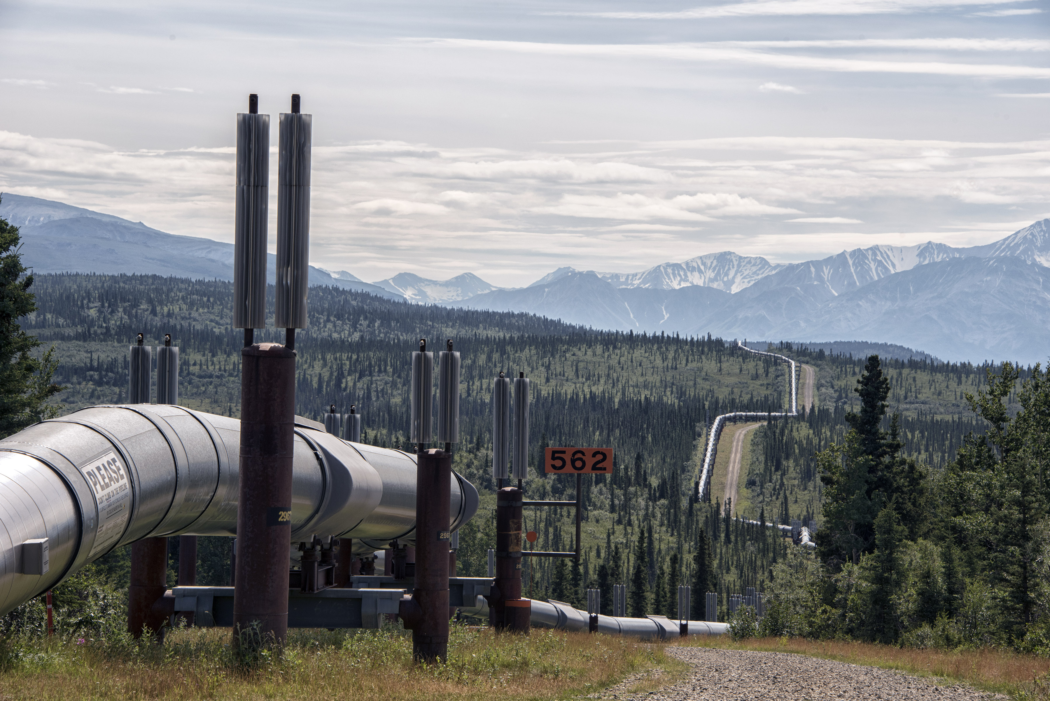 The Oil Pipeline in the interior of Alaska.